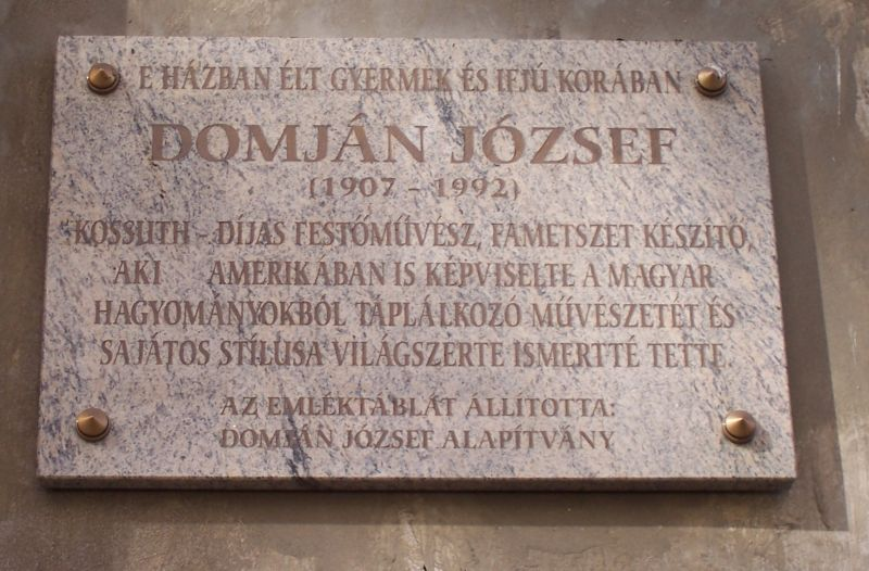 József Domján commemorative plaque in Budapest District X, Harmat Street No 1, Hungary.